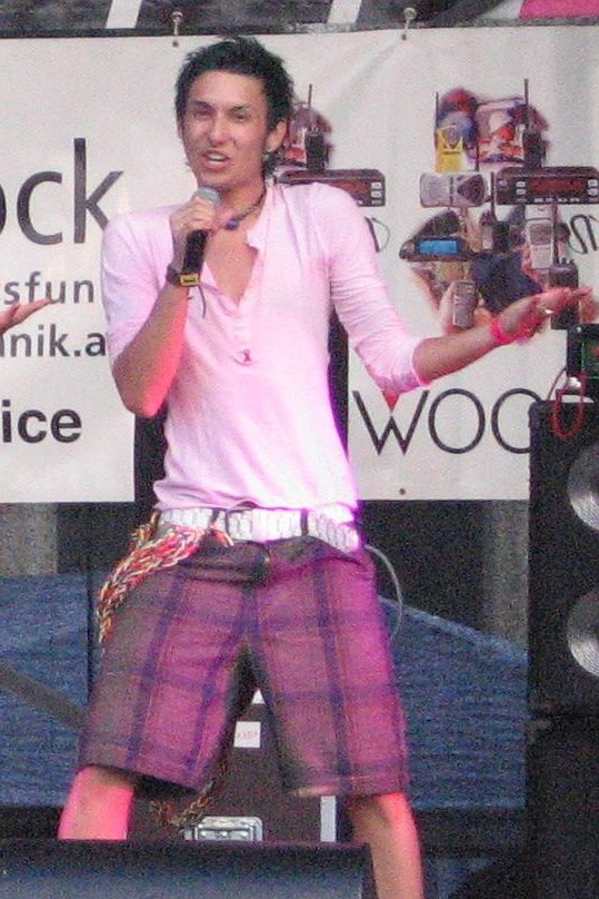 Thomas "Tom" Neuwirth